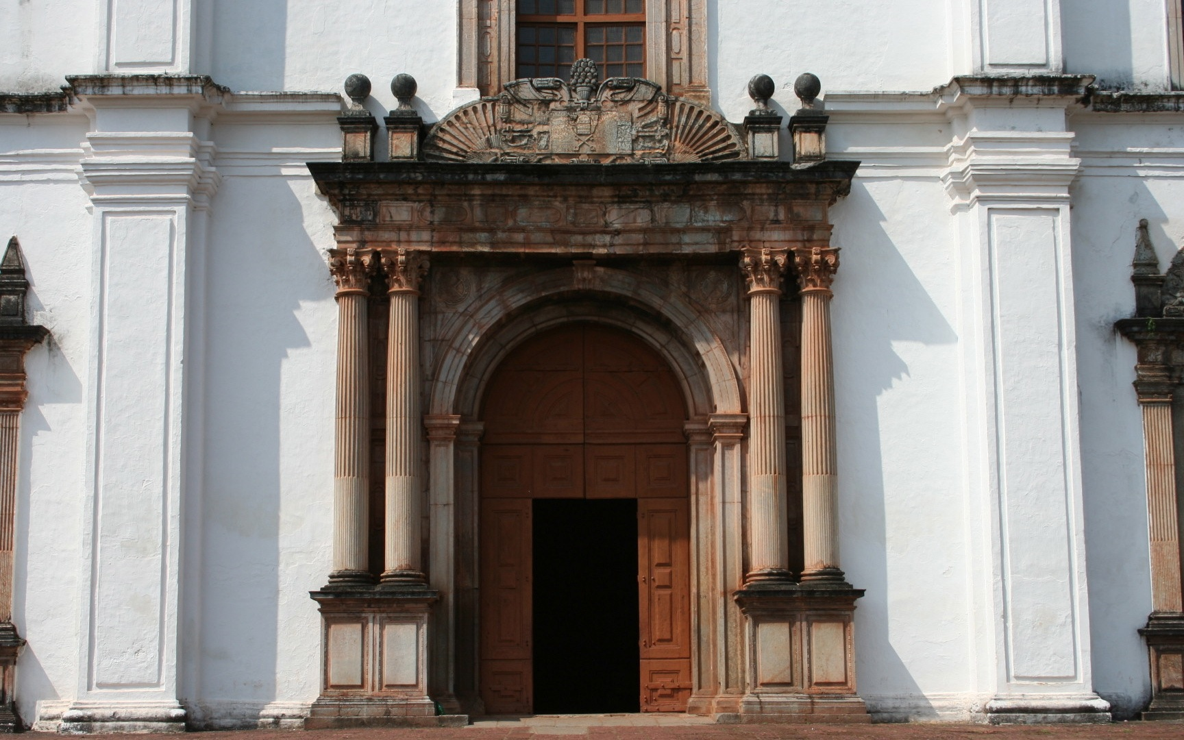 Portuguese cathedrals of Old Goa (Velha Goa). Syncretism tour, Oct '11.